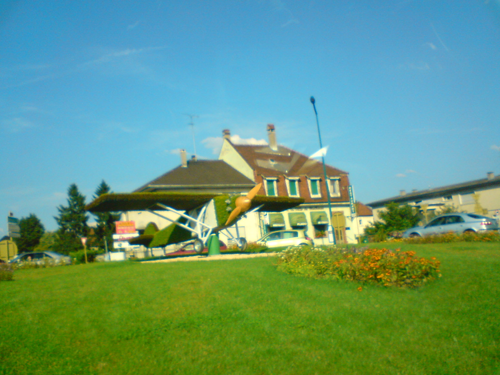 The Spirit of St-Louis